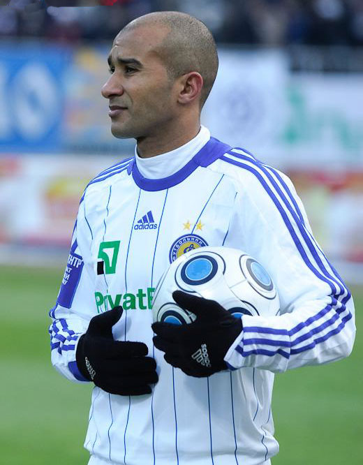 Badr El Kaddouri, Moroccan footballer, during the game for Dynamo Kyiv